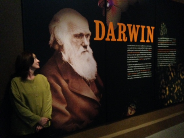 rosa-beltran-darwin